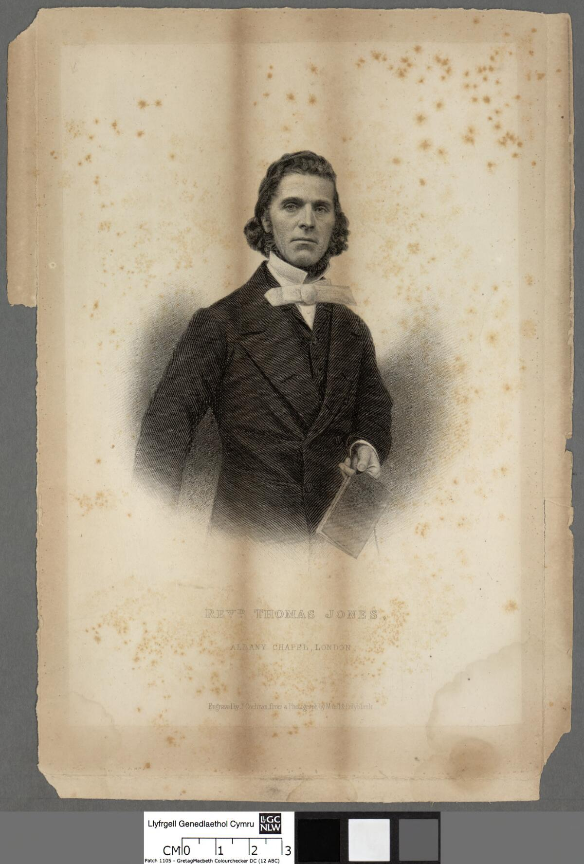 A portrait from the Welsh Portrait Collection at the National Library of Wales. Depicted person: Thomas Jones – Welsh Congregational minister